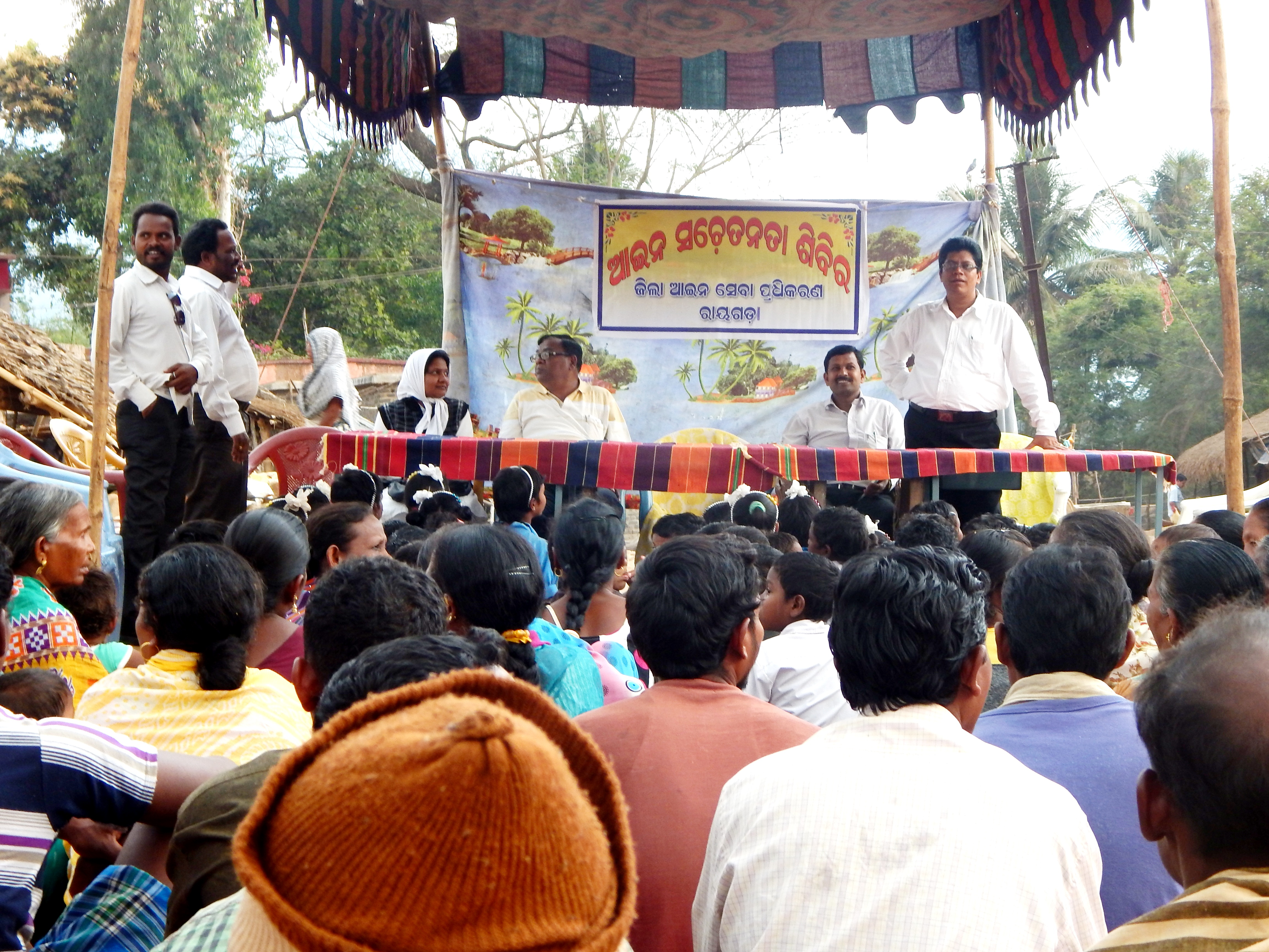 Legal Awareness Programme by DLSA, Rayagada